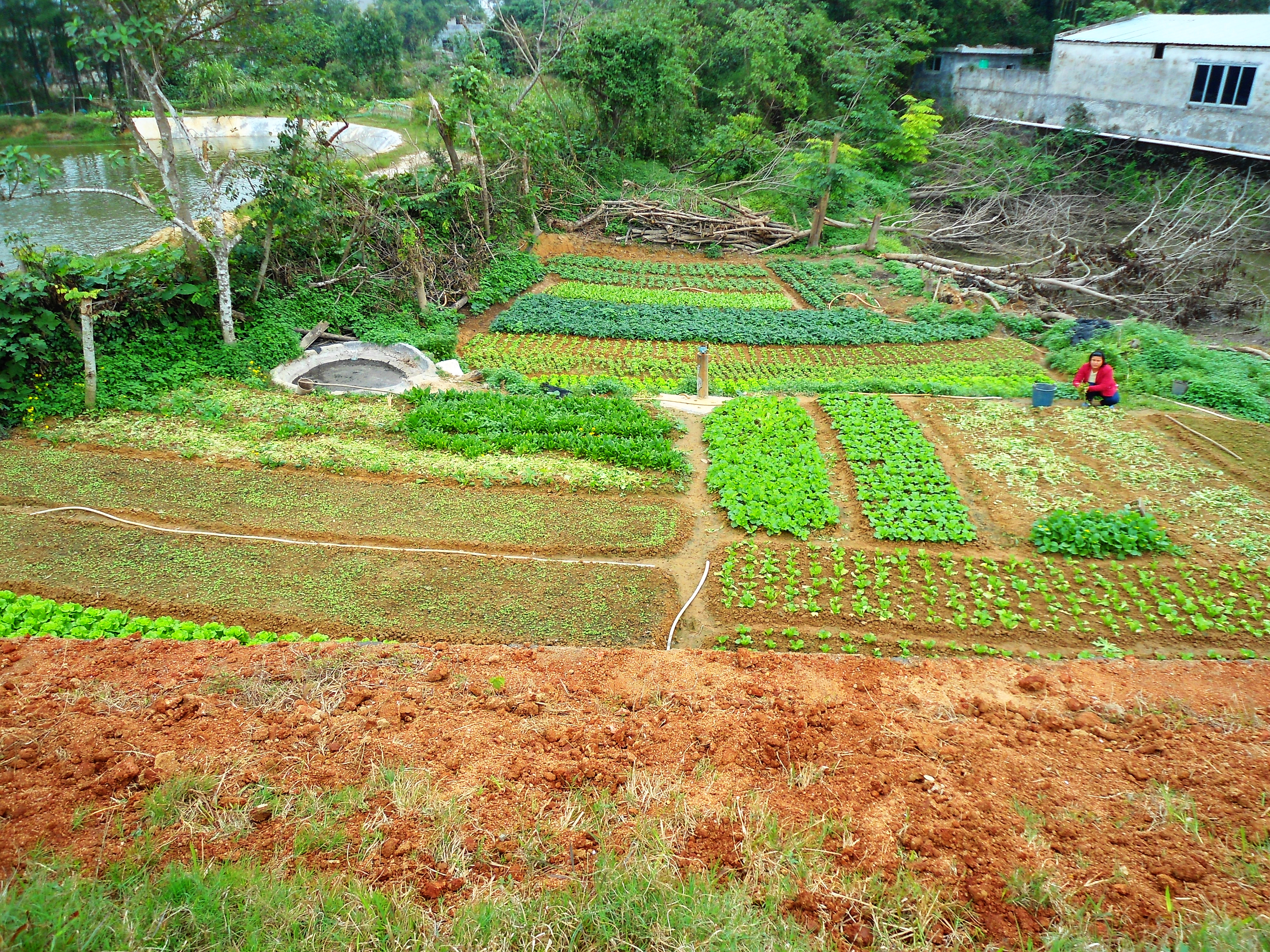 A small vegetable farm in rural Hainan Province, China. Note the cement reservoir containing cow manure mixed with water. This is commonly used in the province.